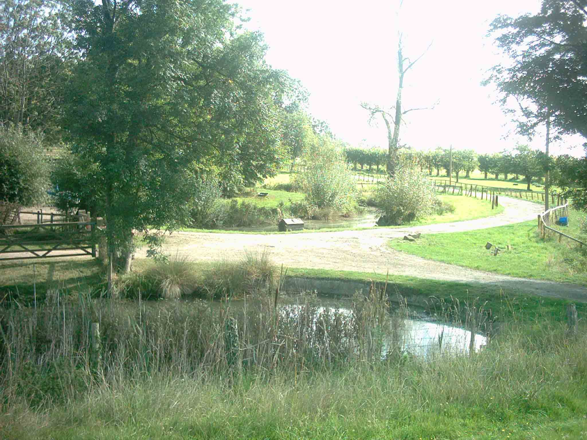 A possible prehistoric site at Cossington in Kent. Taken by me 24/09/05